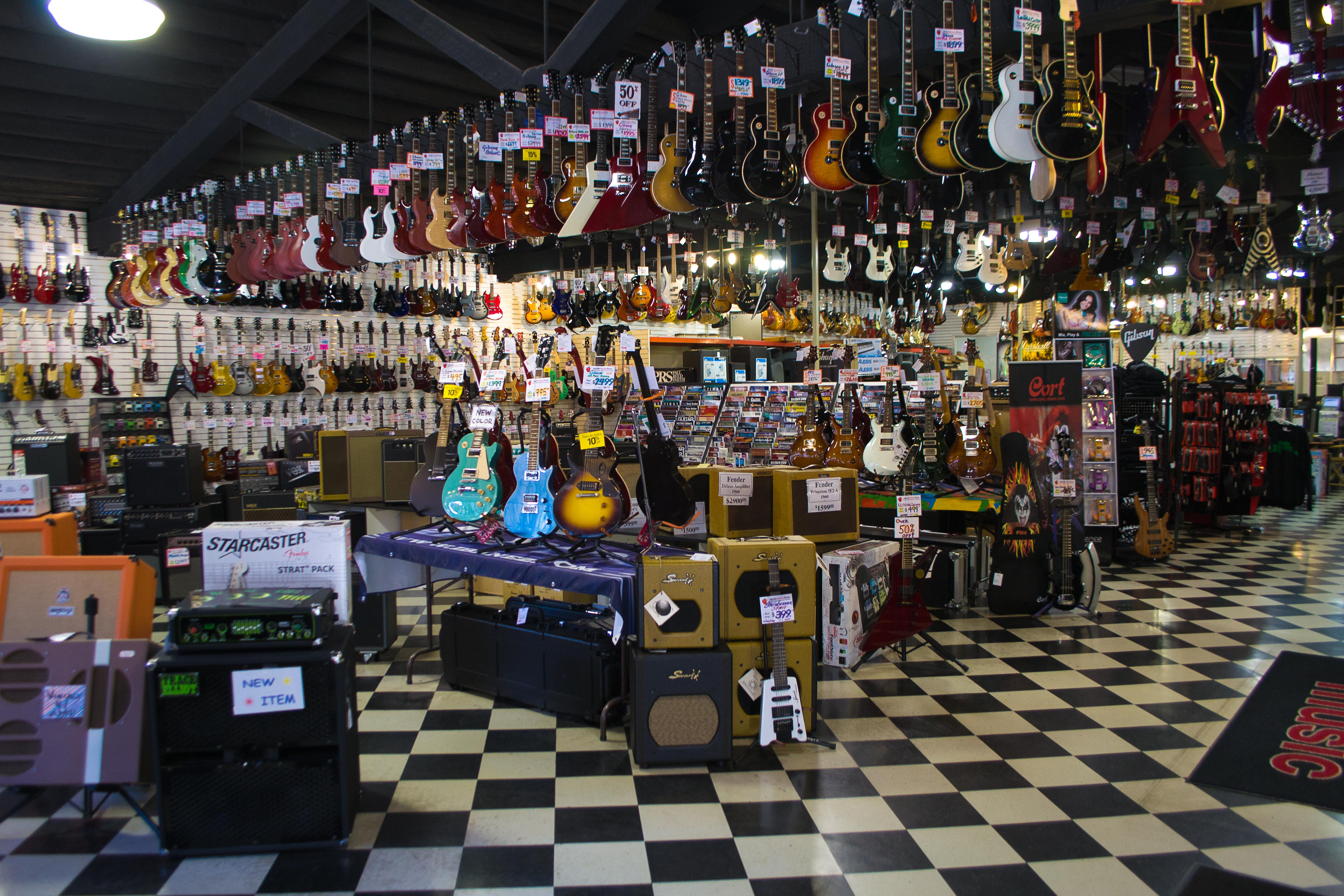 An electric guitar store